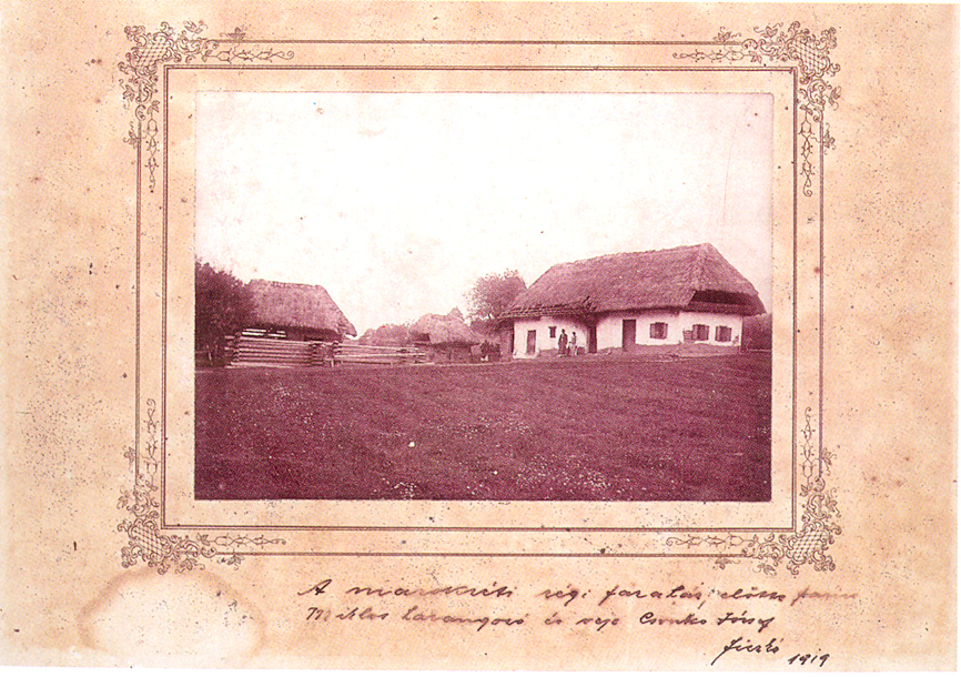 Márokrét (Markovci) in Prekmurje: the old parish, before the ringer Miklós Farics and his son-in-law József Csrnko